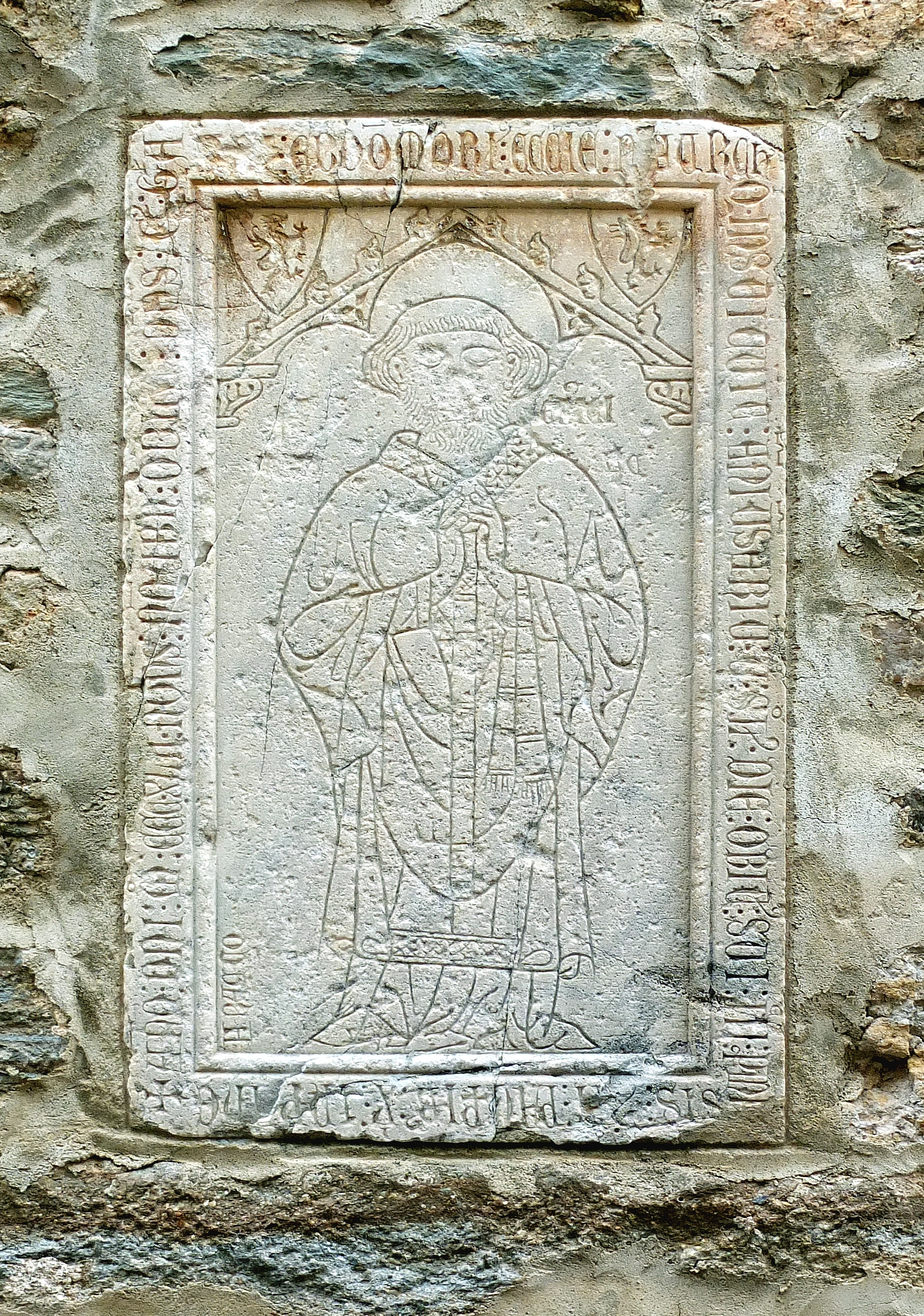 Tombstone for Guillem Gerard (+ 1342) next to the portal in the western wall of the Romanesque church Saint-Martin de Fourques, France.